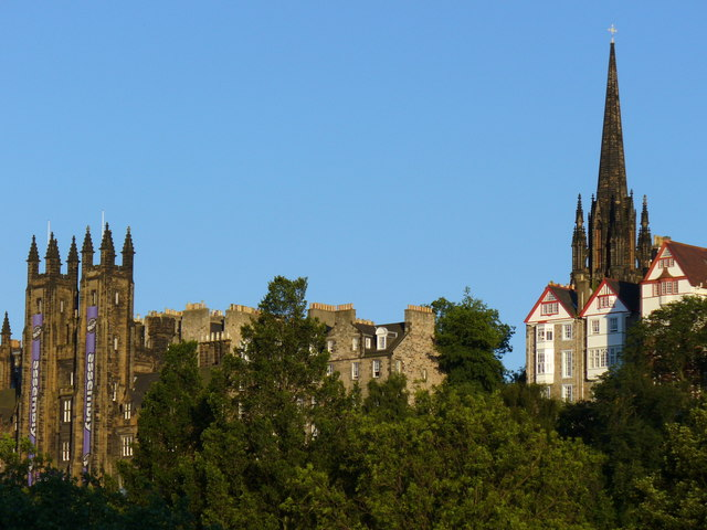 Divinity College and The Mound. Part of Edinburgh University beside the head of the Church of Scotland. This impressive skyline towers over Princes Street.